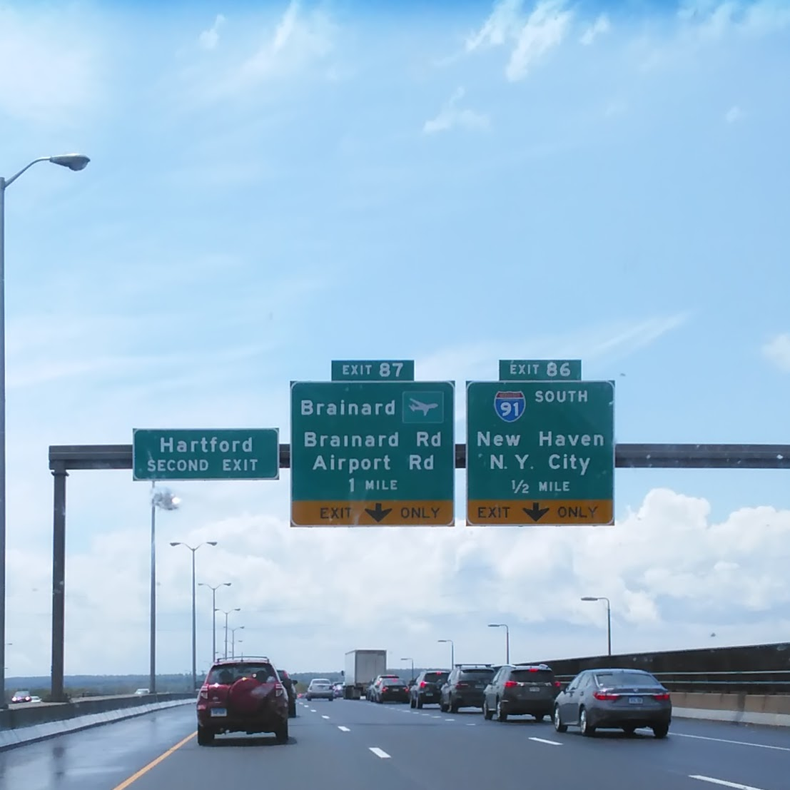 The signs for Route 15/5 on the Charter Oak Bridge in Connecticut.